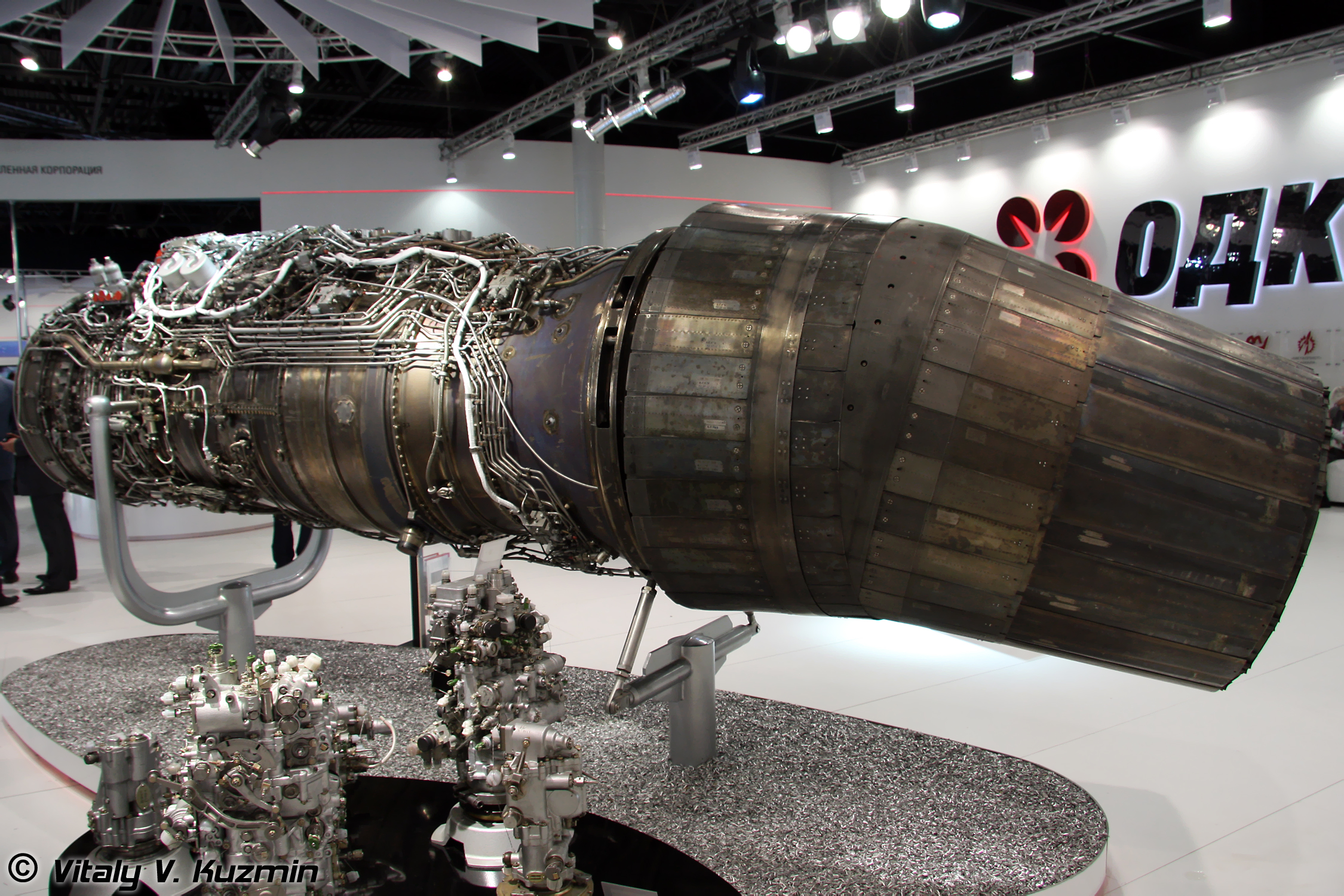 117C for Su-35 - MAKS-2009